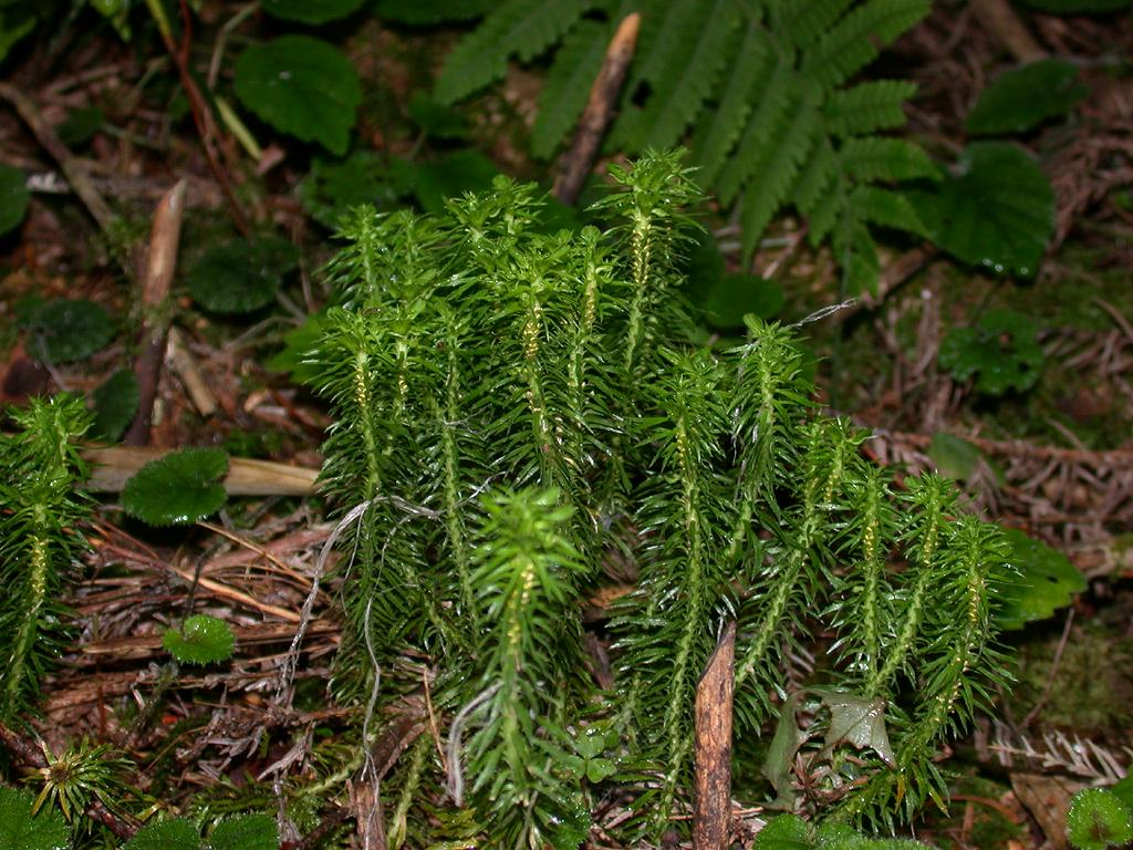 Huperzia serrata (syn. Lycopodium serratum) Japanese name; Tougesiba